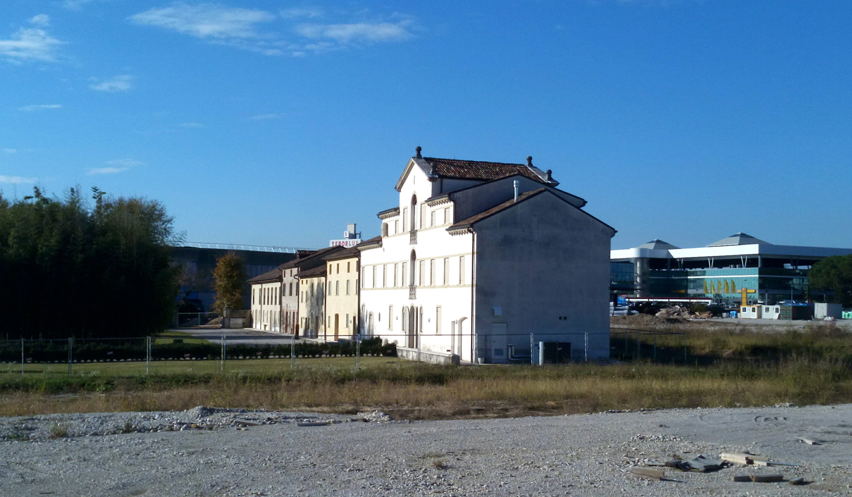 Villa Liccer nel 2017.